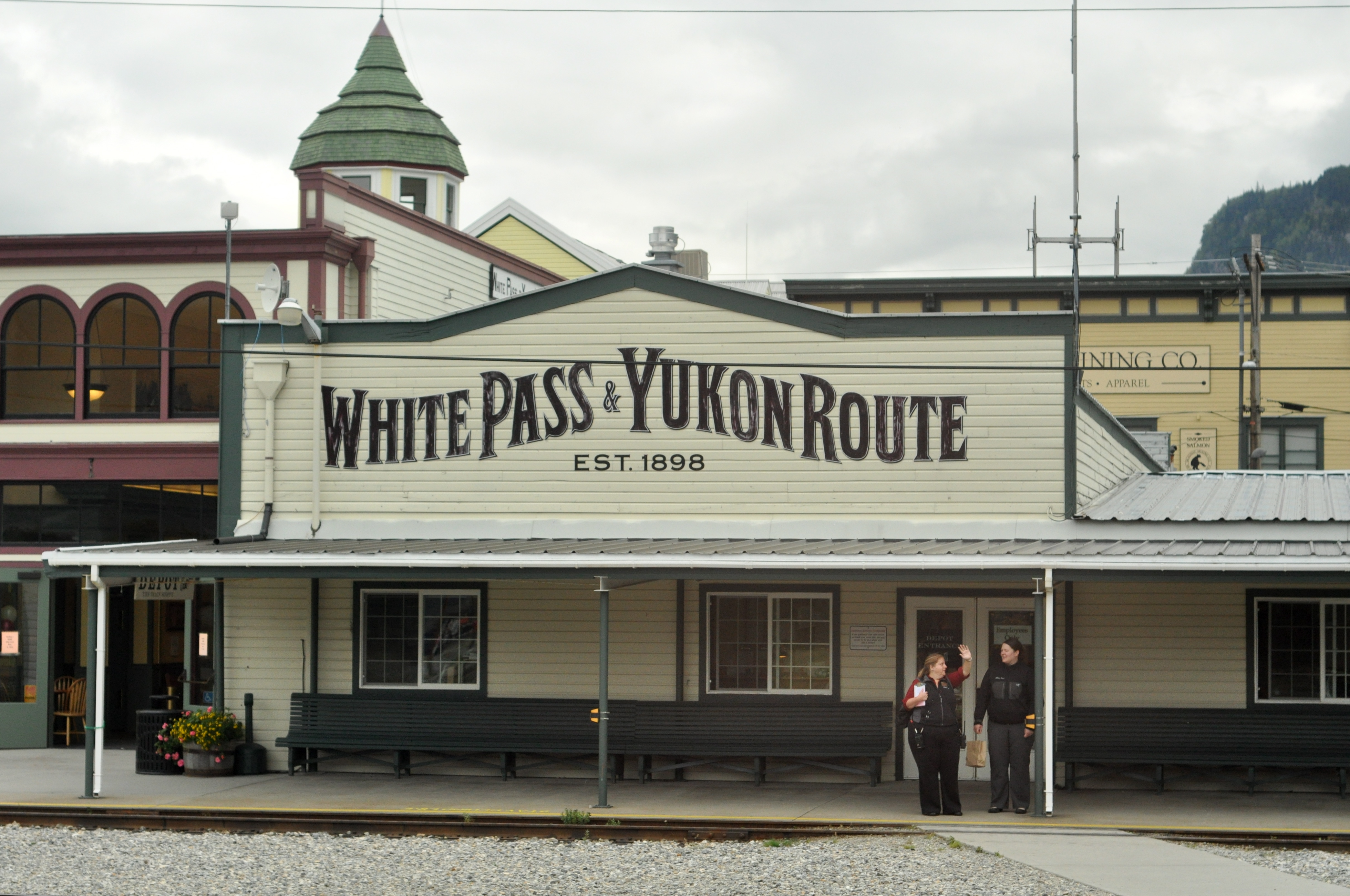 White Pass Railroad